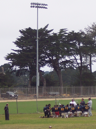 Jefferson High School, Daly City, California . football training with "[John] Madden Lights" in background.